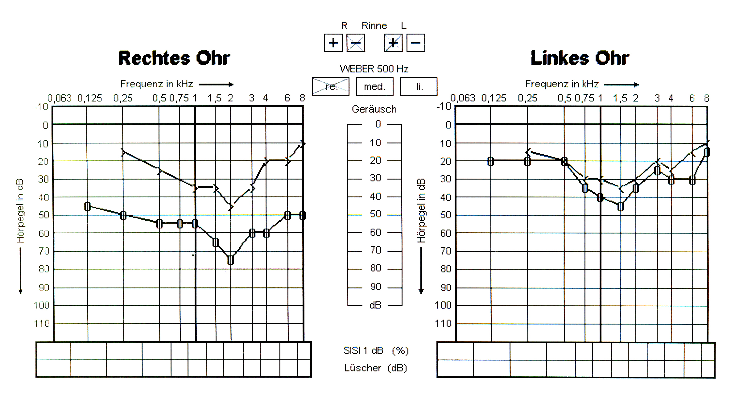 Carhart's-dip in 52-year old woman suffering from otosclerosis.